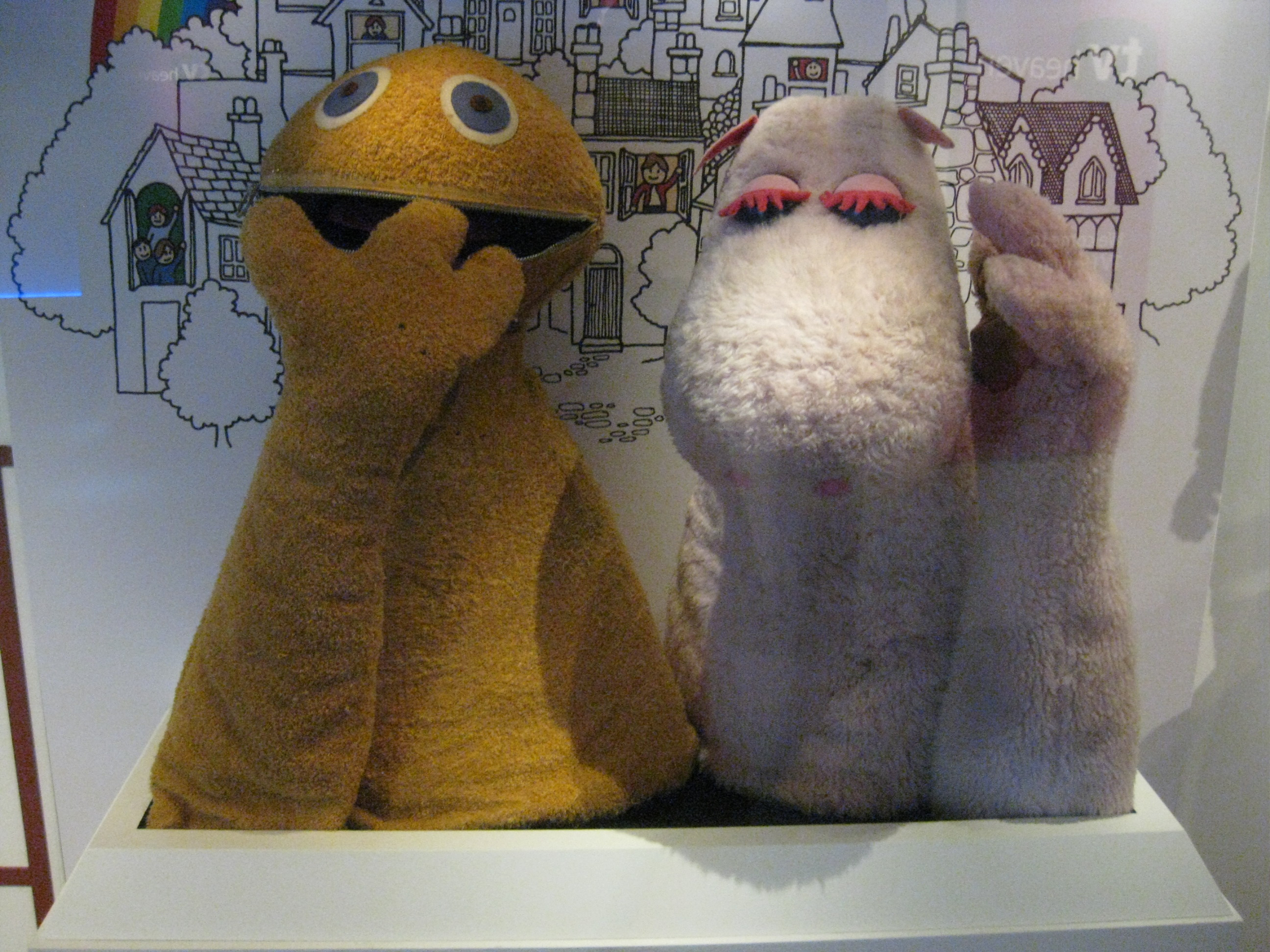 Zippy and George puppets from the TV series Rainbow, at the National Media Museum, Bradford